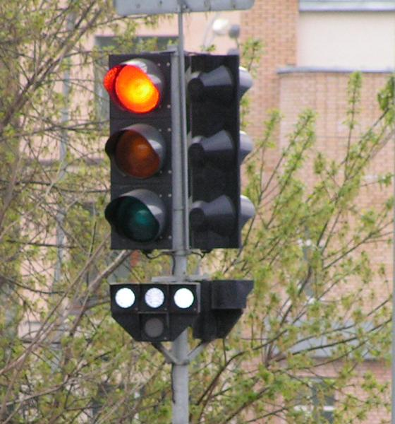 T-shaped traffic light for public transit vehicles in Moscow signalling “Stop!”